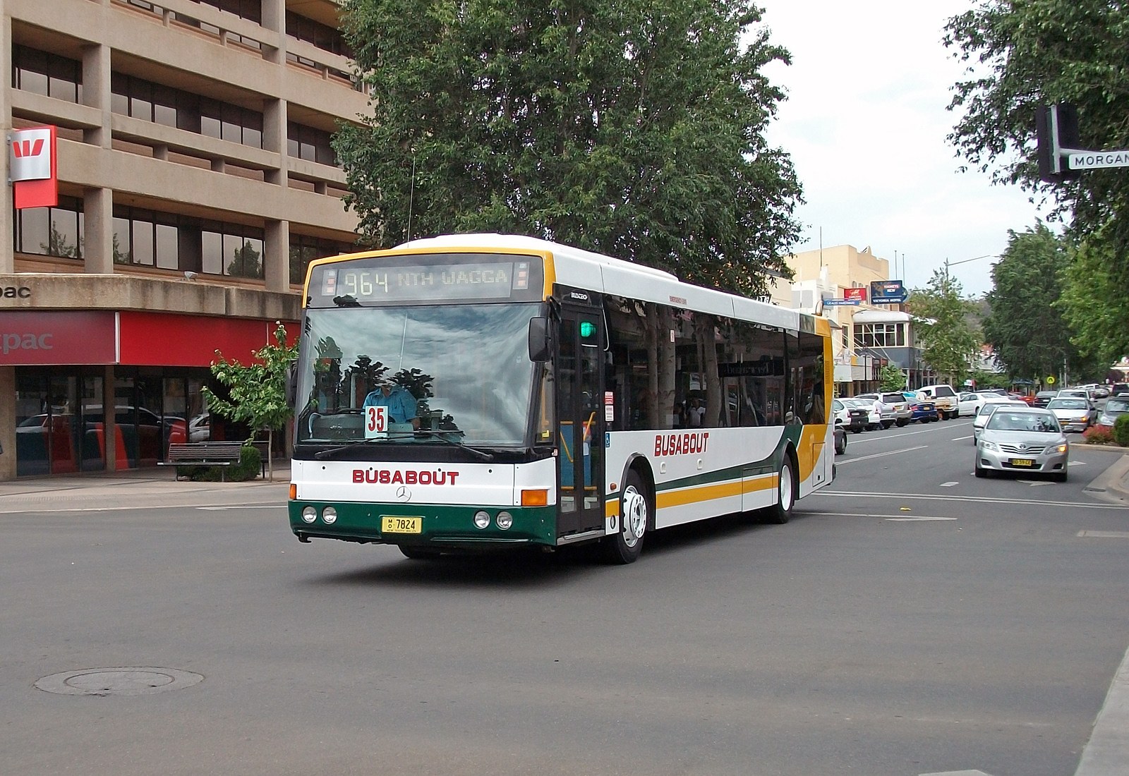 Bustech bodied Mercedes-Benz O405NH with Sydney registration (m/o 7824, built 2000) servicing route 964 (Wagga CBD to Estella via North Wagga) operated by Busabout Wagga Wagga, Australia.